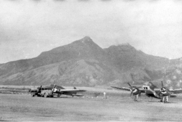 An Avro Anson of the Rescue and Communication Squadron, and a Bristol Beaufort of No. 100 Squadron, at Vivigani airfield on Goodenough Island, 21 July 1943